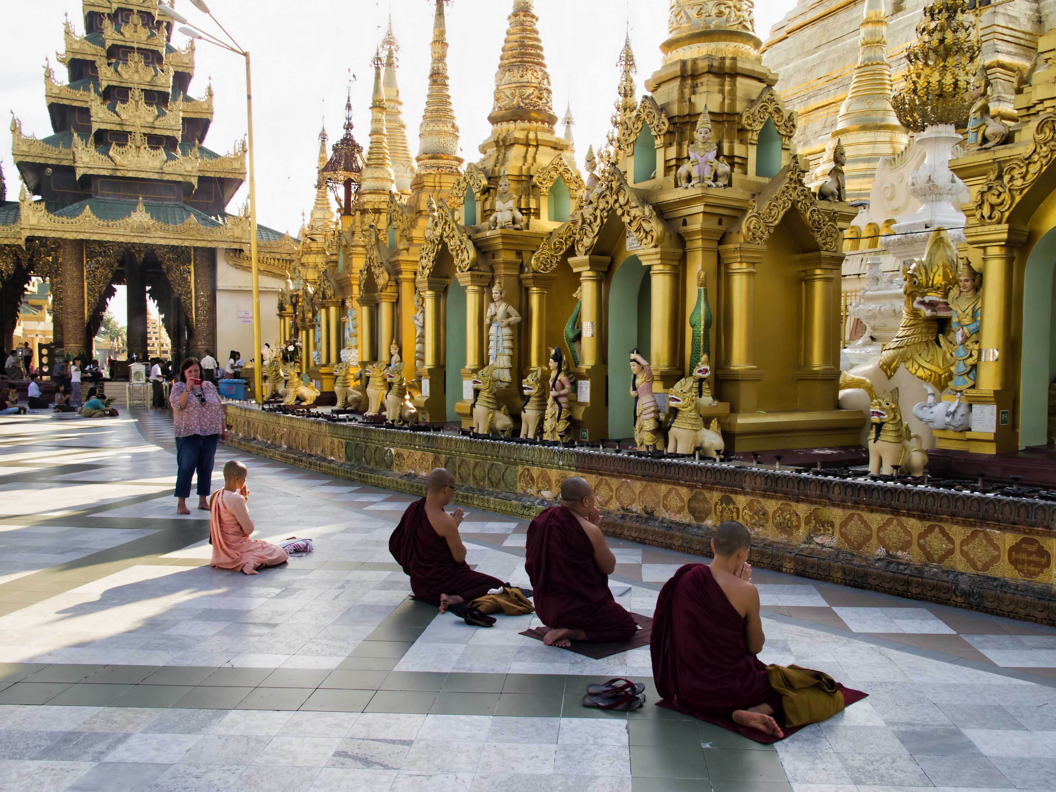 A Buddhist nun and three monks stop to pray along the concourse circling the central golden stupa (the base of which can be seen in the background in the upper right) of Shwedagon Pagoda, Yangon, Myanmar.